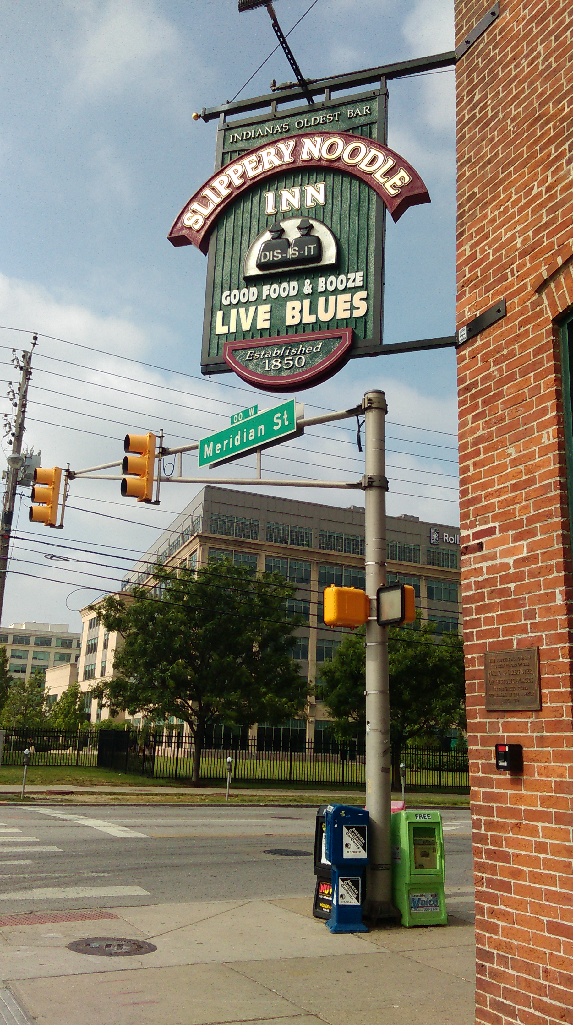 The Slippery Noodle Inn on Meridian Street in Indianapolis, Indiana. Established in 1850, it is the oldest continuously operating bar in the state.